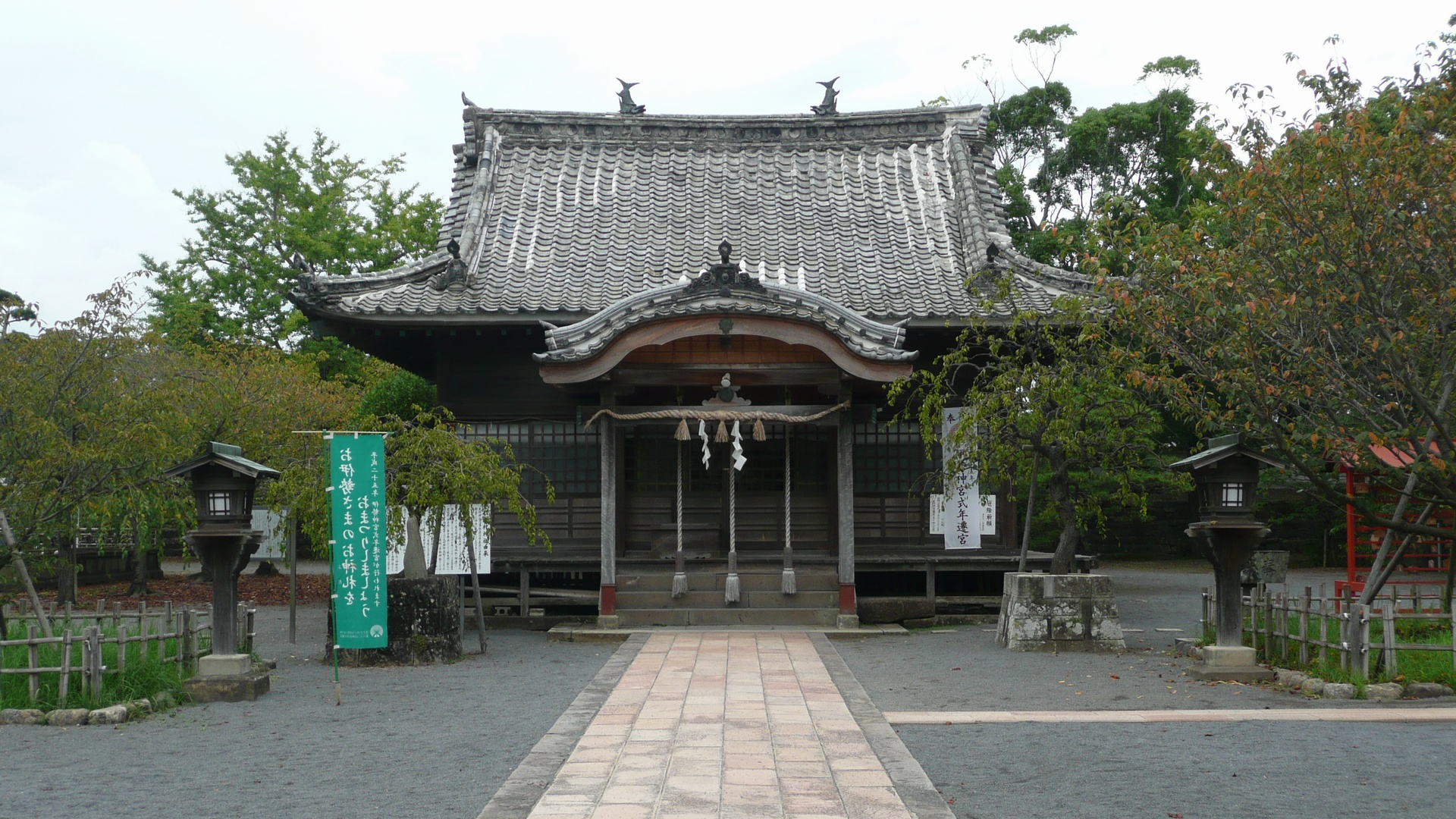 Omura Jinja - Shinto shrine (Omura City, Nagasaki, Japan)